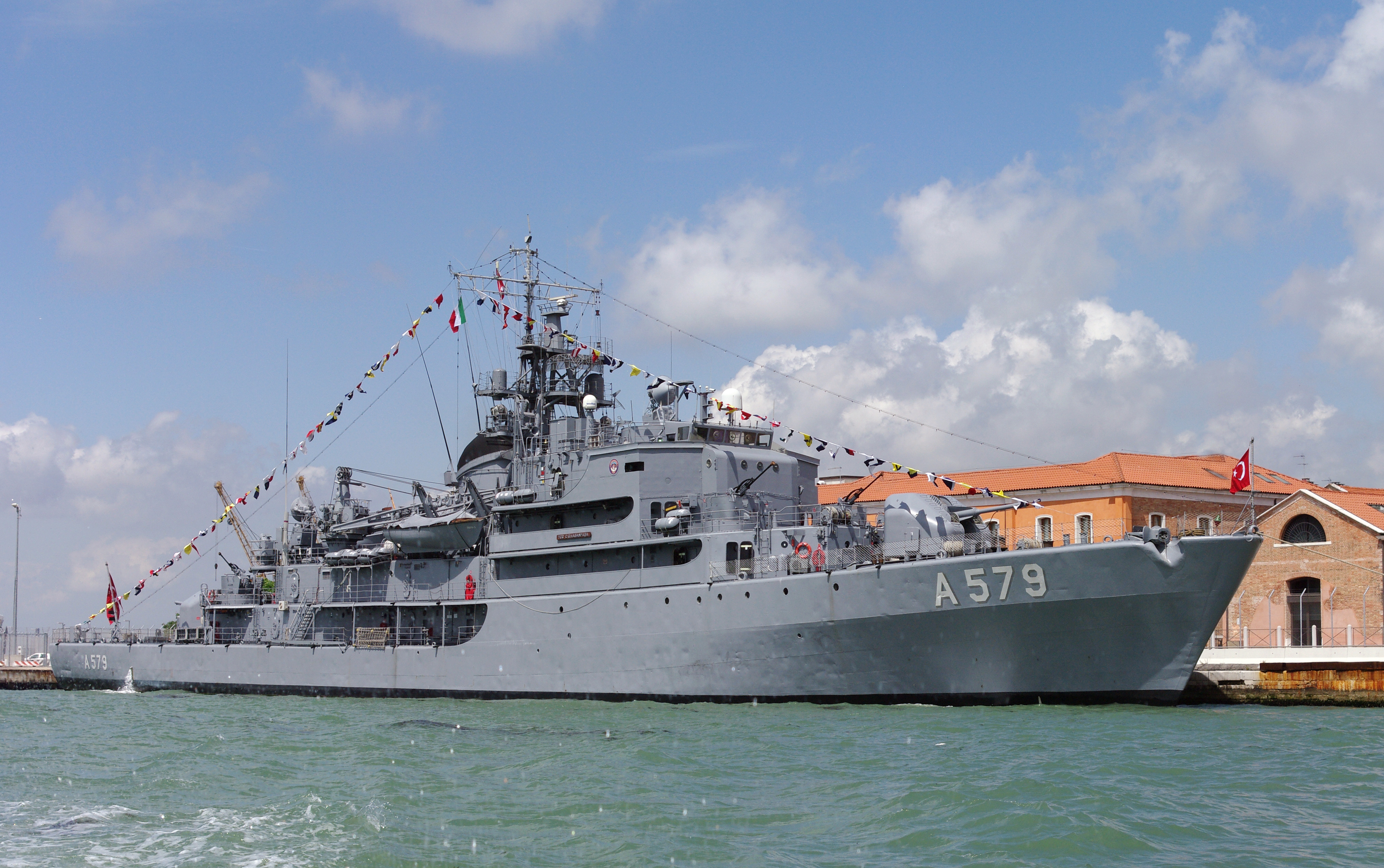 The Turkish Navy ship TCG Cezayirli Gazi Hasan Paşa (A-579) in Venice, Italy